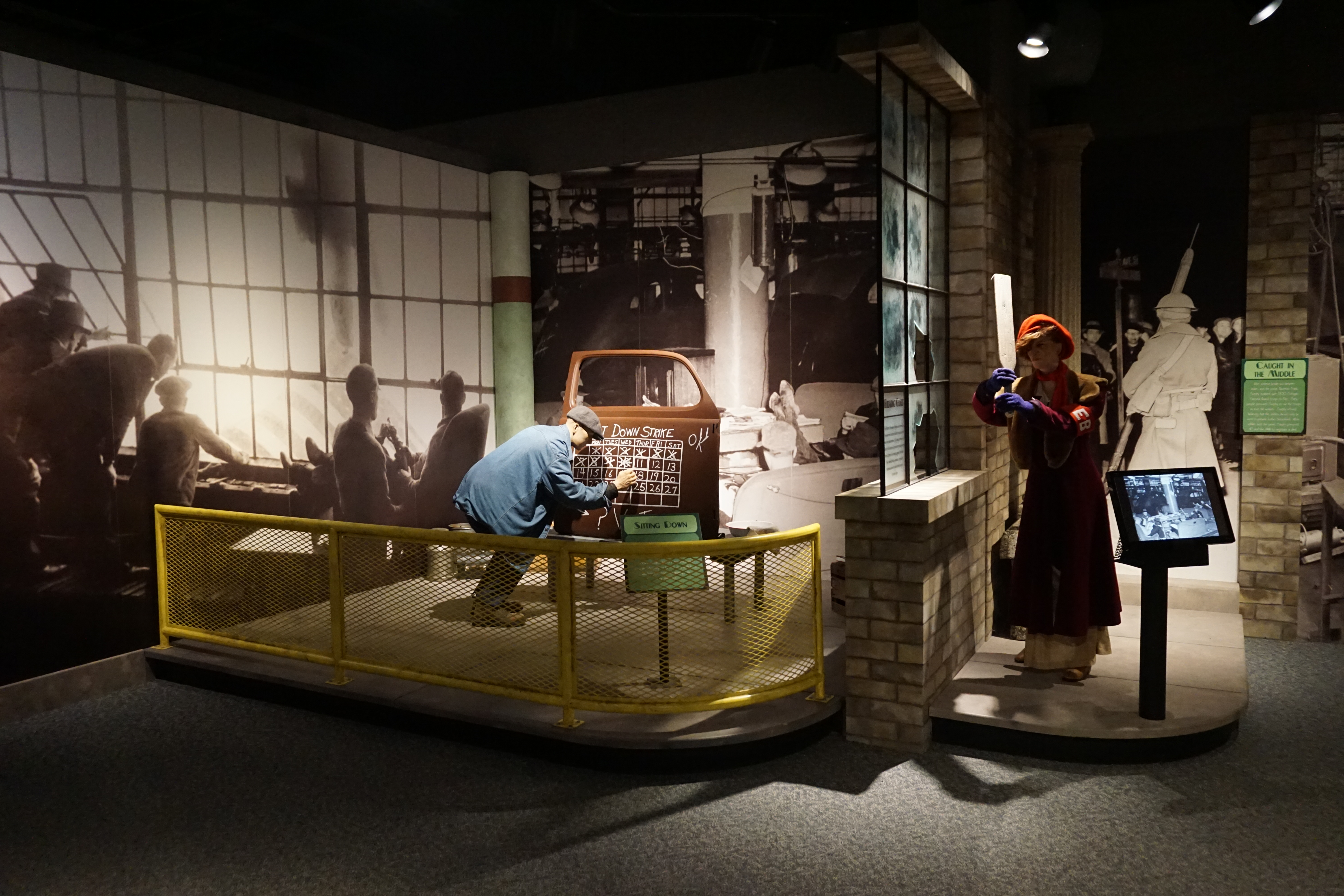 The Flint sit-down strike exhibit at the Sloan Museum in Flint, Michigan (United States).